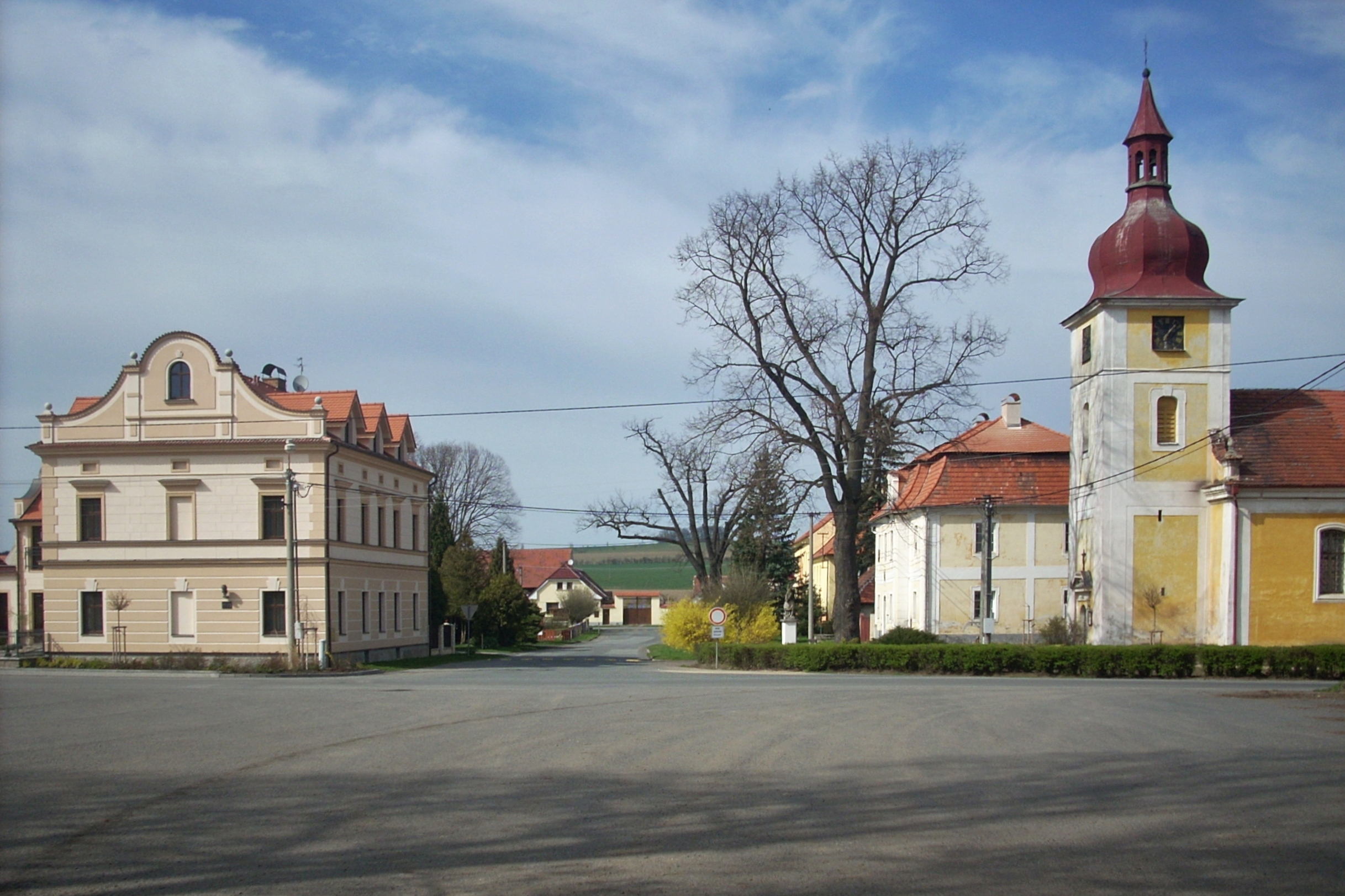 trailer in Dolní Lukavice